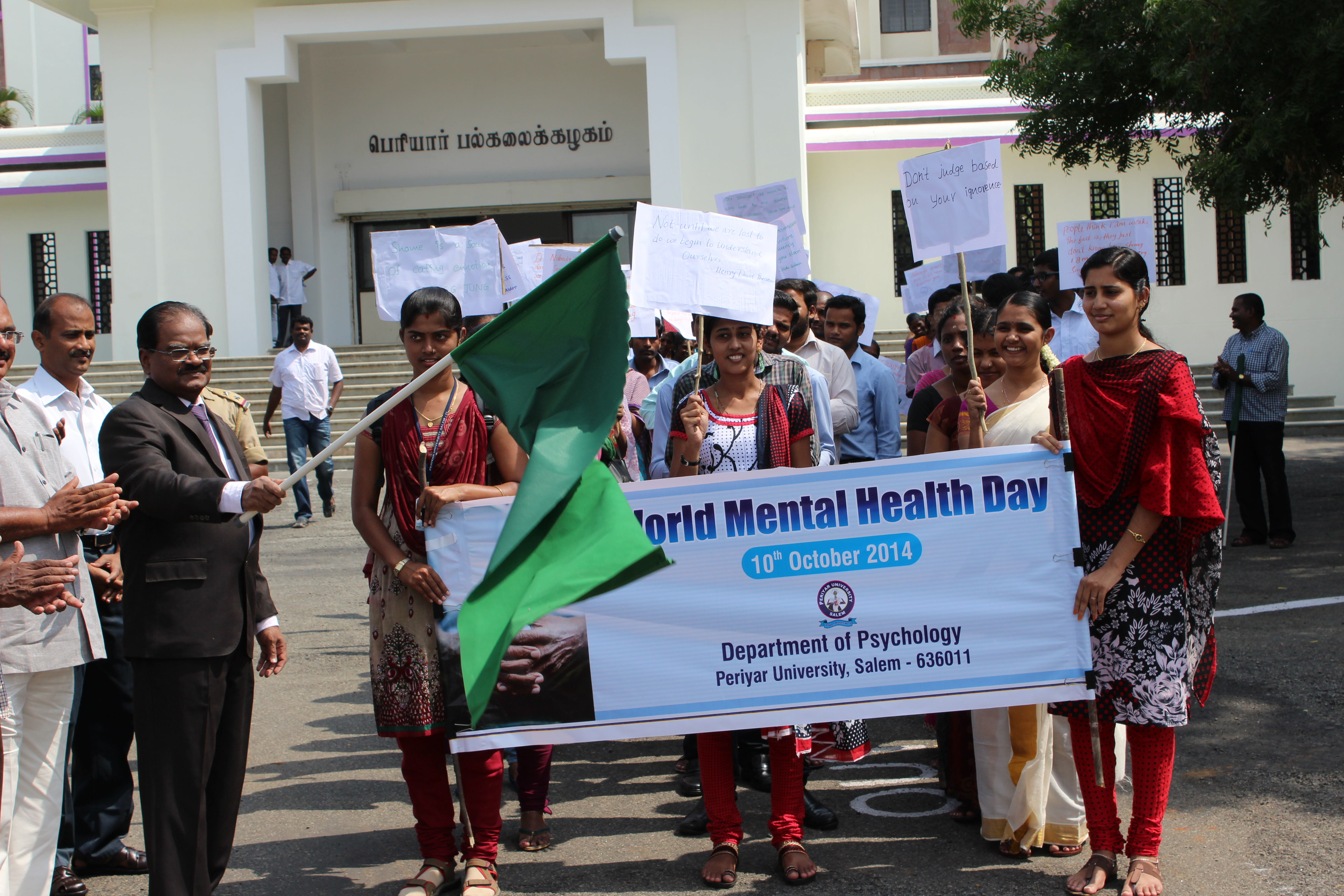 Vice Chancellor C Swaminathan flagging off the Mental Health awareness rally on October 10 2014.